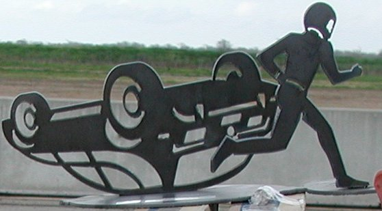 The Index of Effluency trophy for the 24 Hours of LeMons racing series